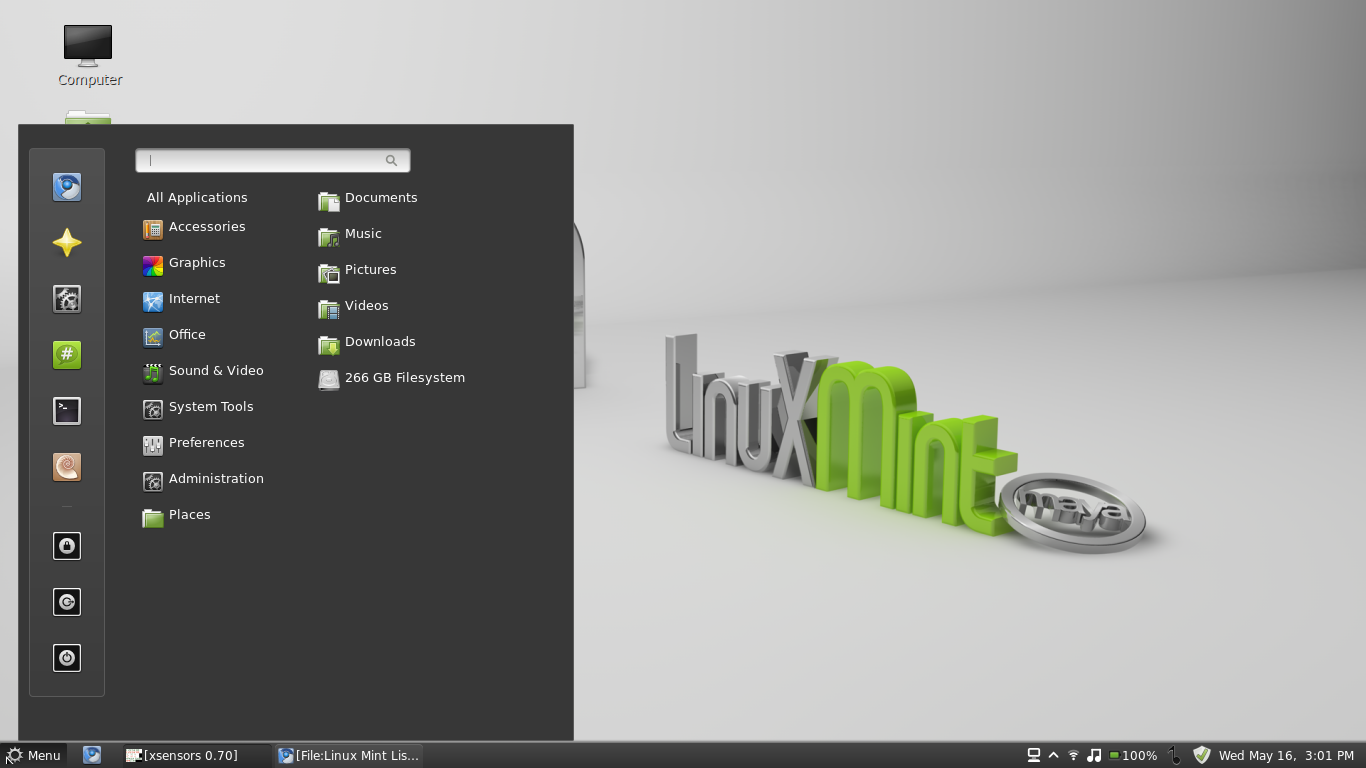 Linux Mint 13 Release Candidate. Desktop showing Cinnamon 1.4 UP1 and the applications menu.